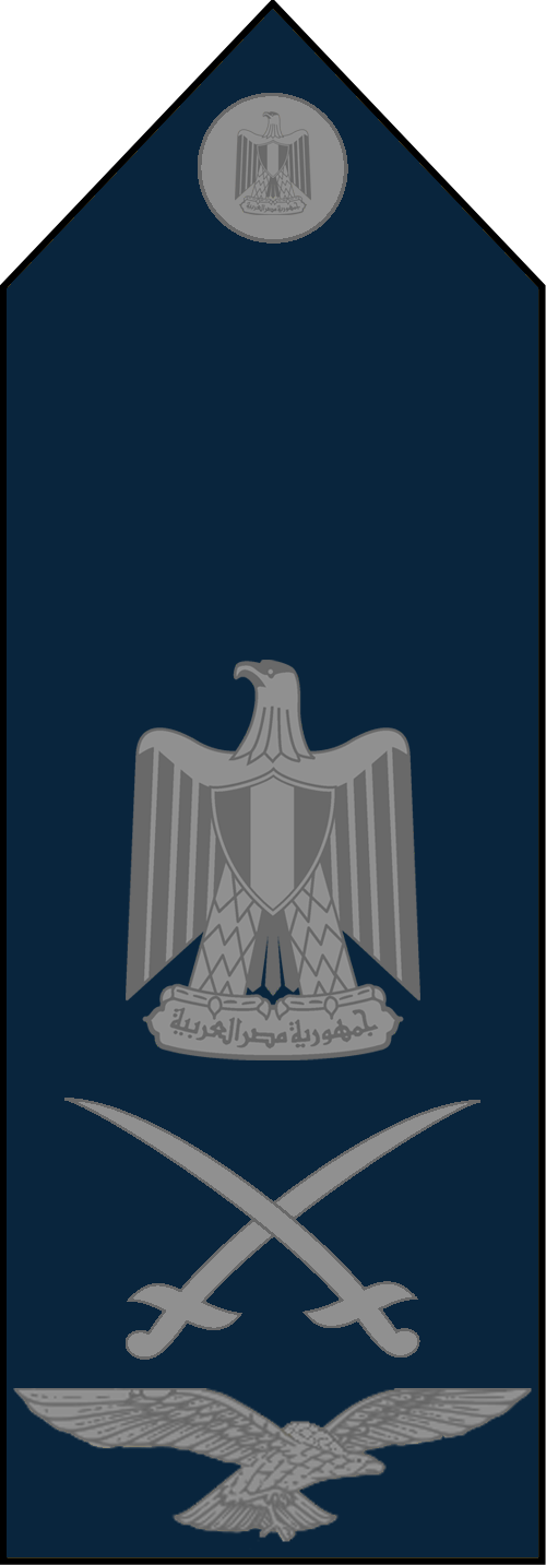 Egyptian Air Force Rank "Air Vice-Marshal"